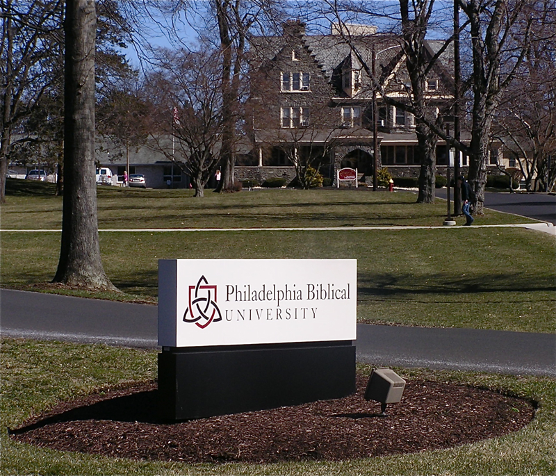 Philadelphia Biblical University campus in Langhorne Manor, Pennsylvania